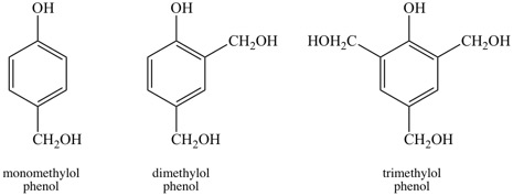 the structures of mono, di, and trimethylol phenol